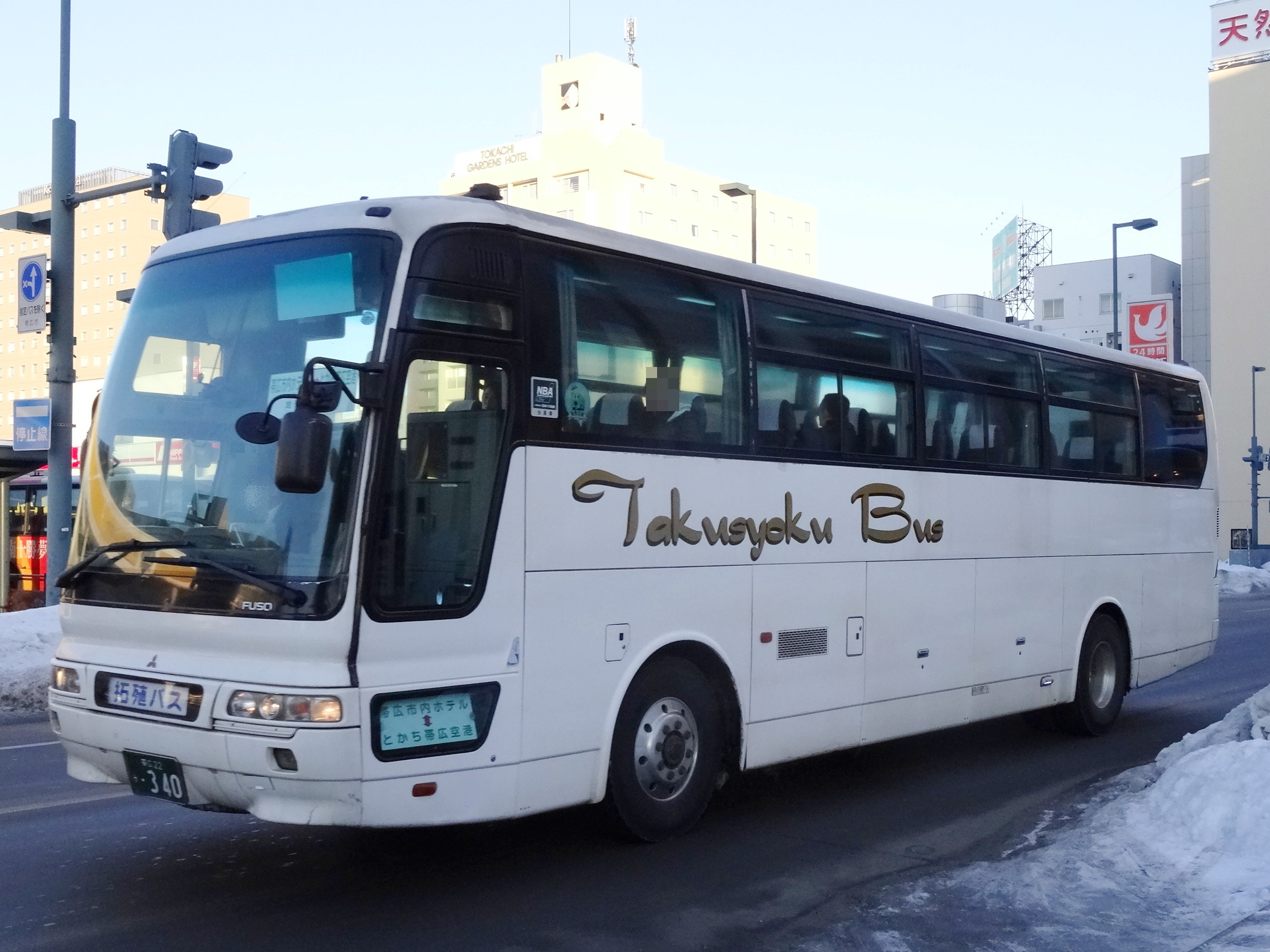 Obihiro city Hotel area to Tokachi-Obihiro Airport